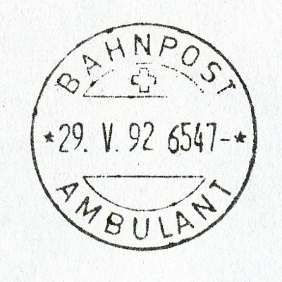 TPO 6547 (Bellinzona — Locarno) postmark.